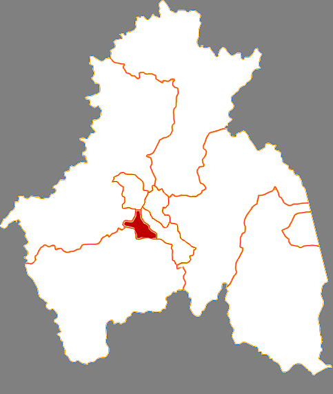 Location of Xian district in Mudanjiang City, China